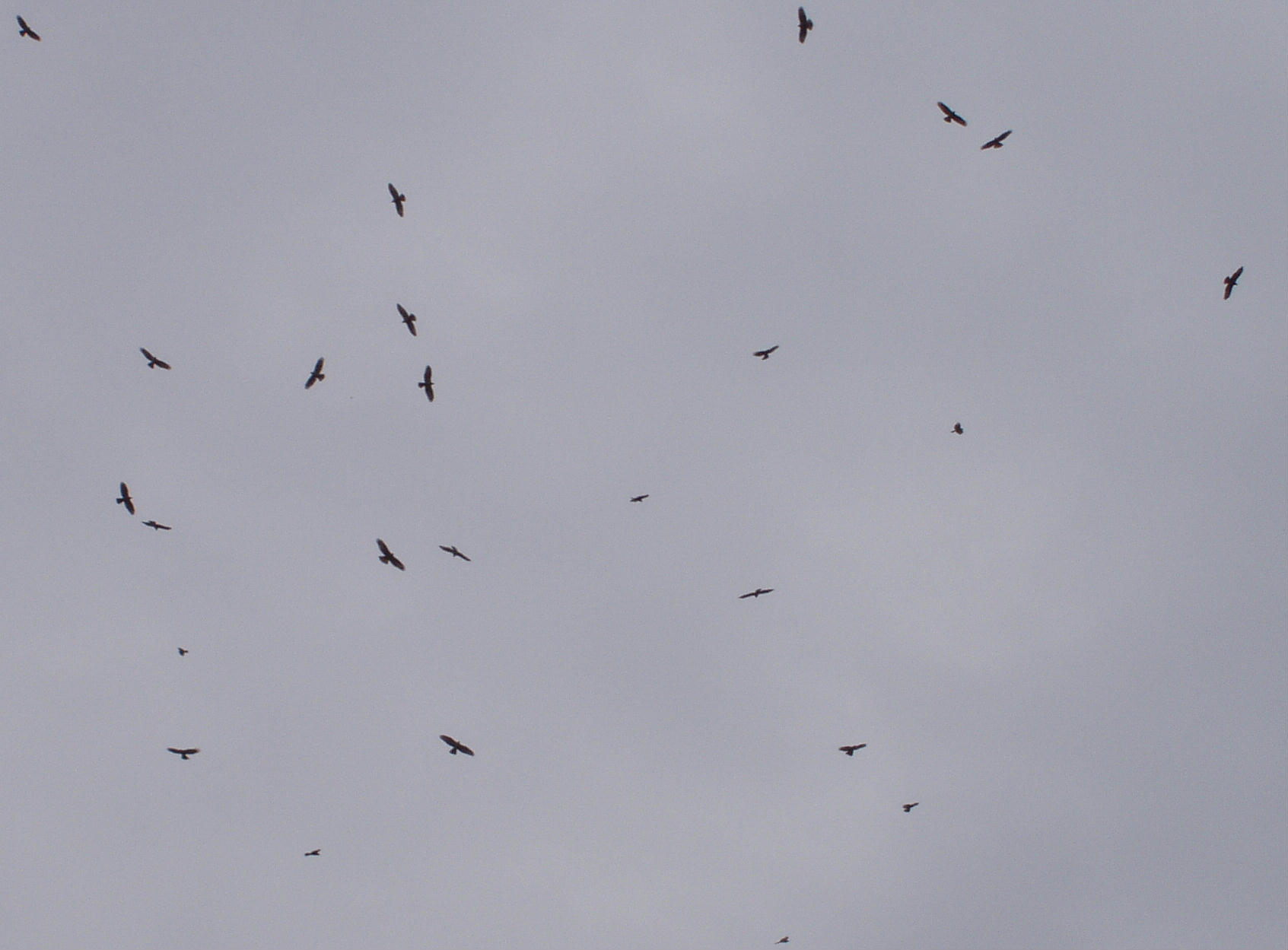 Honey Buzzards (Pernis apivorus) during spring migration, Pierre-Aiguille, France